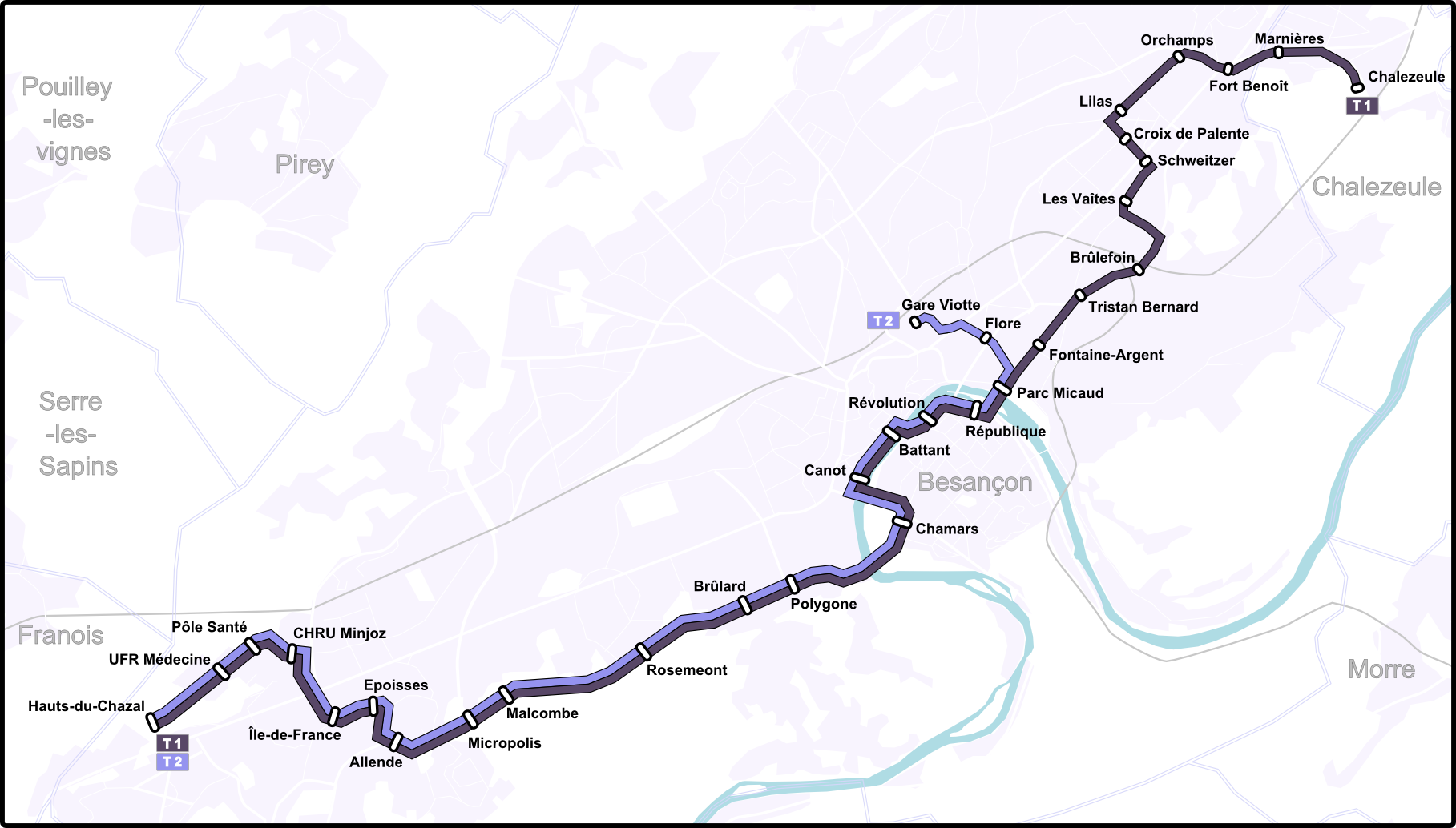 Tramway line of Besançon with its connection to the Gare Viotte train station